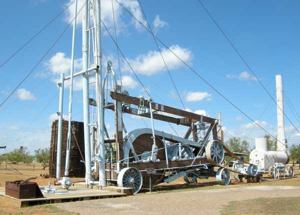 Early portable oil drilling rig on the grounds of the Permian Basin Museum, Midland, Texas.